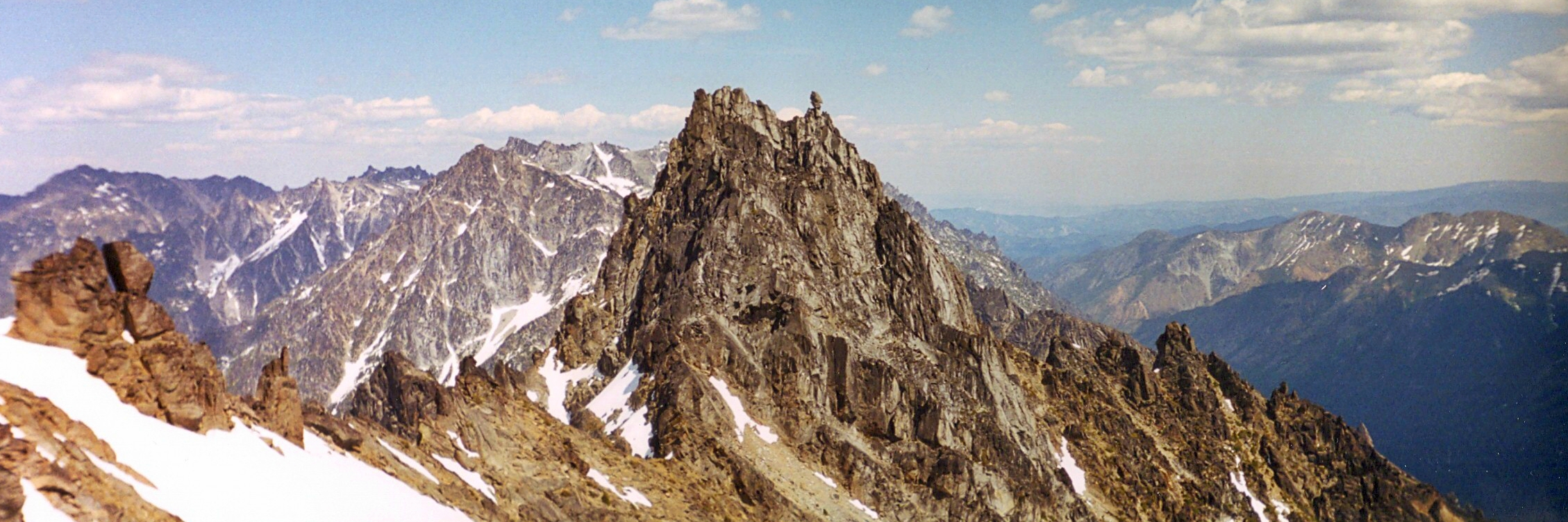 Sherpa Peak seen during ascent of Mount Stuart in June 2000. Note the balanced rock on top.